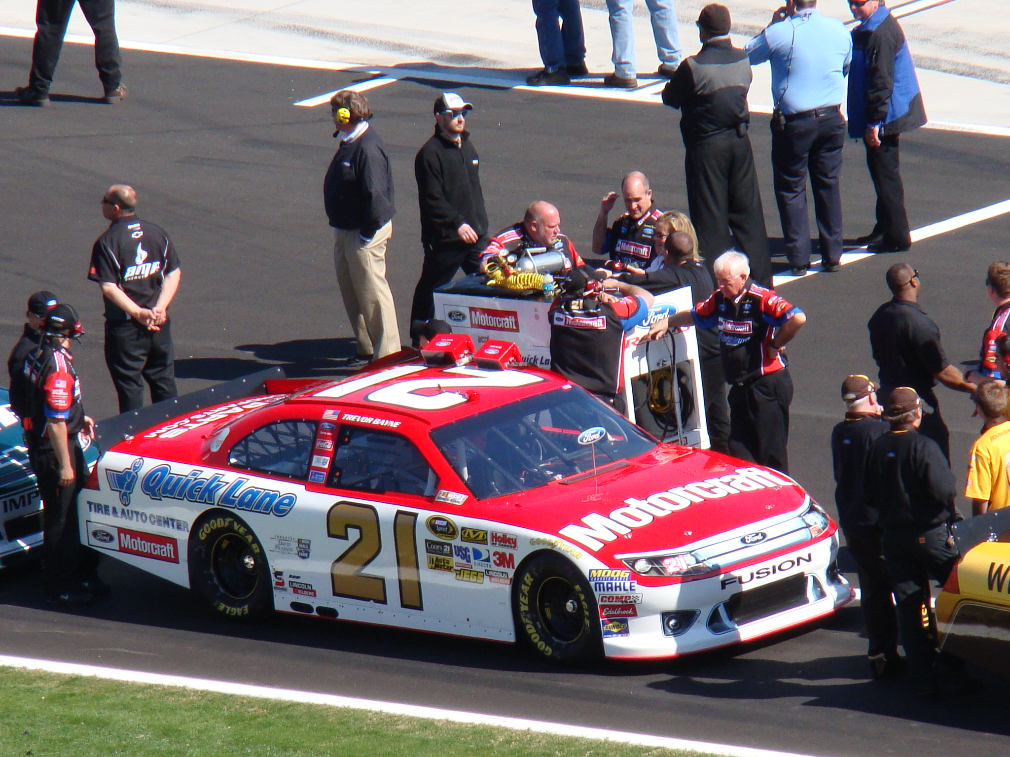 Trevor Bayne prior to the 2011 Daytona 500, which became his first victory in the Sprint Cup Series.